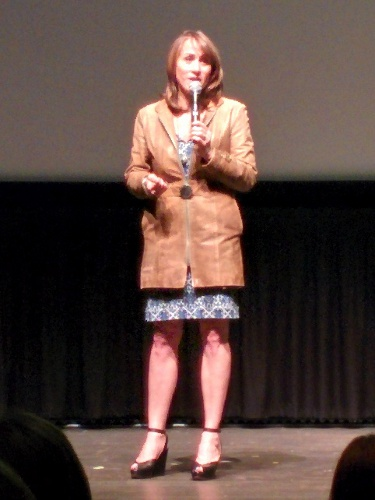 Shira Piven at a Q&A session for Welcome to Me at the Sundance Kabuki in San Francisco, California, United States